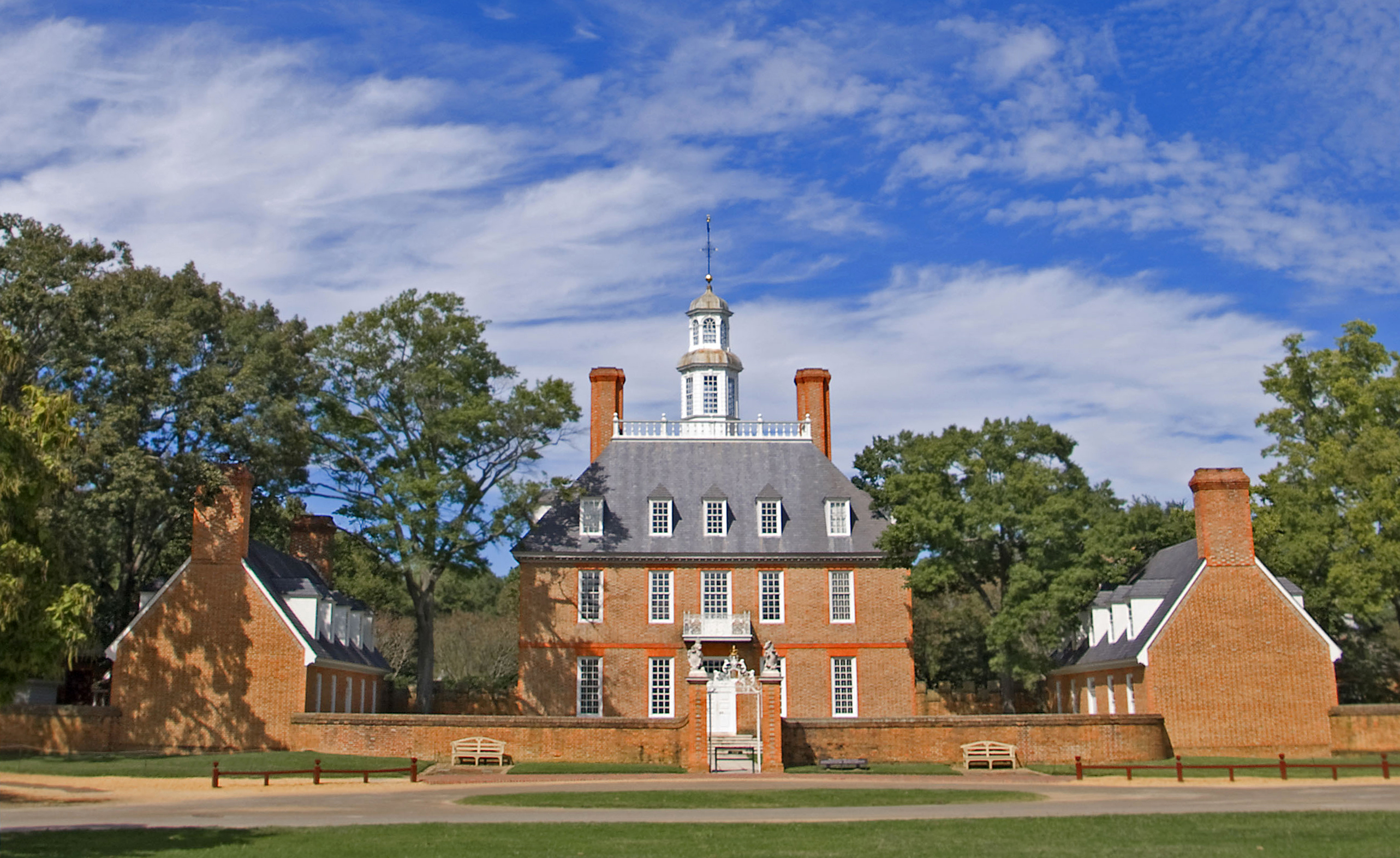 The Governor's Palace in Williamsburg, Virginia, 2pm on September 20, 2012, using a Nikon D80.